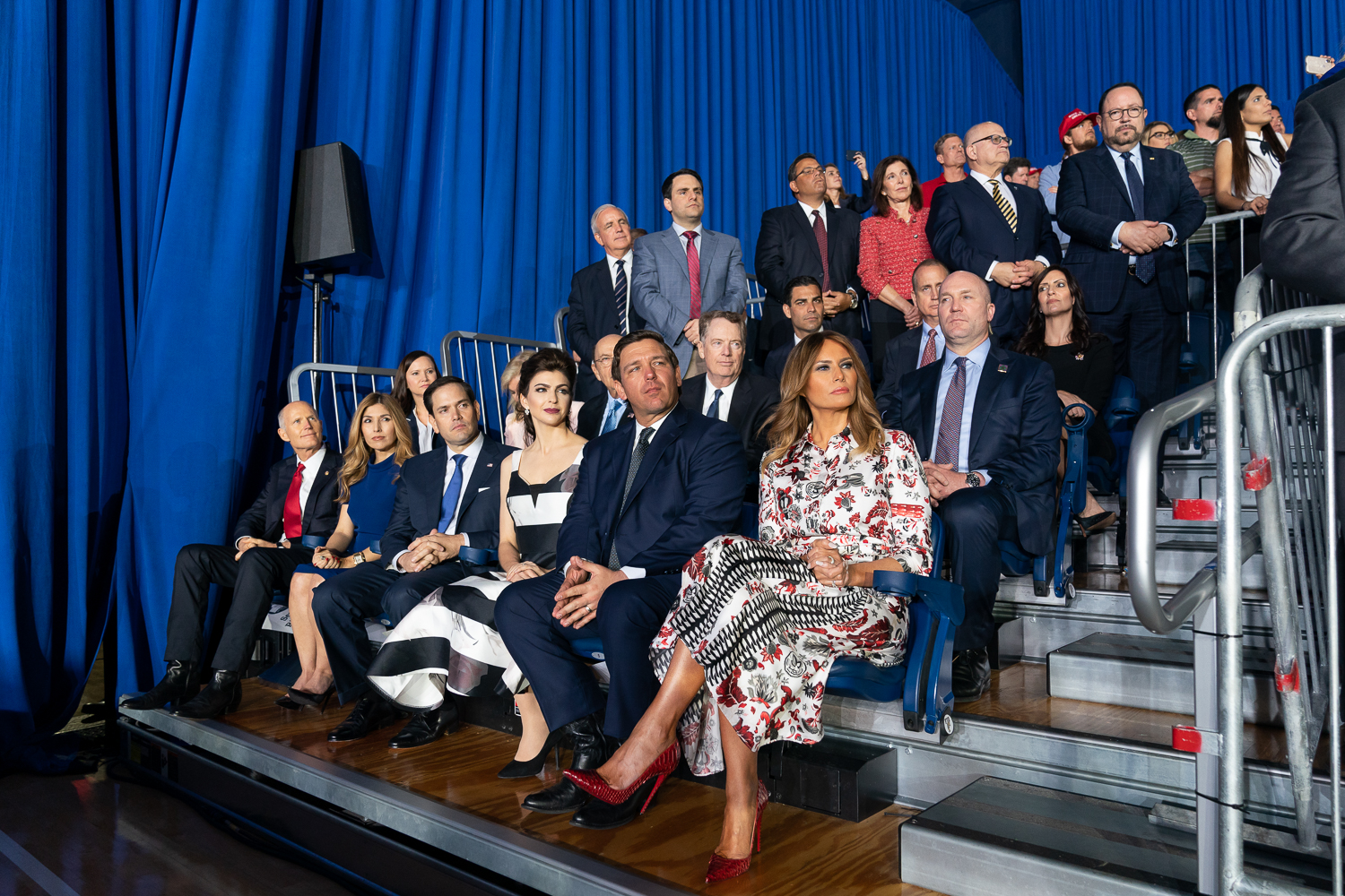 First Lady Melania Trump watches as President Donald J. Trump delivers remarks to the Venezuelan American community Monday, Feb. 18, 2019, at the Florida International University Ocean Bank Convocation Center in Miami. The First Lady is joined in the front row by (far left) Senator Rick Scott (R-FL); Mrs. Jeanette Rubio; Senator Marco Rubio (R-FL); Mrs. Casey DeSantis; and Florida Governor Ron DeSantis. Second row guests include from left, Mrs. Hilary Geary, wife of Secretary Ross; Secretary of Commerce Wilbur Ross; and U.S. Trade Representative Ambassador Robert Lighthizer. (Official White House Photo by Andrea Hanks)